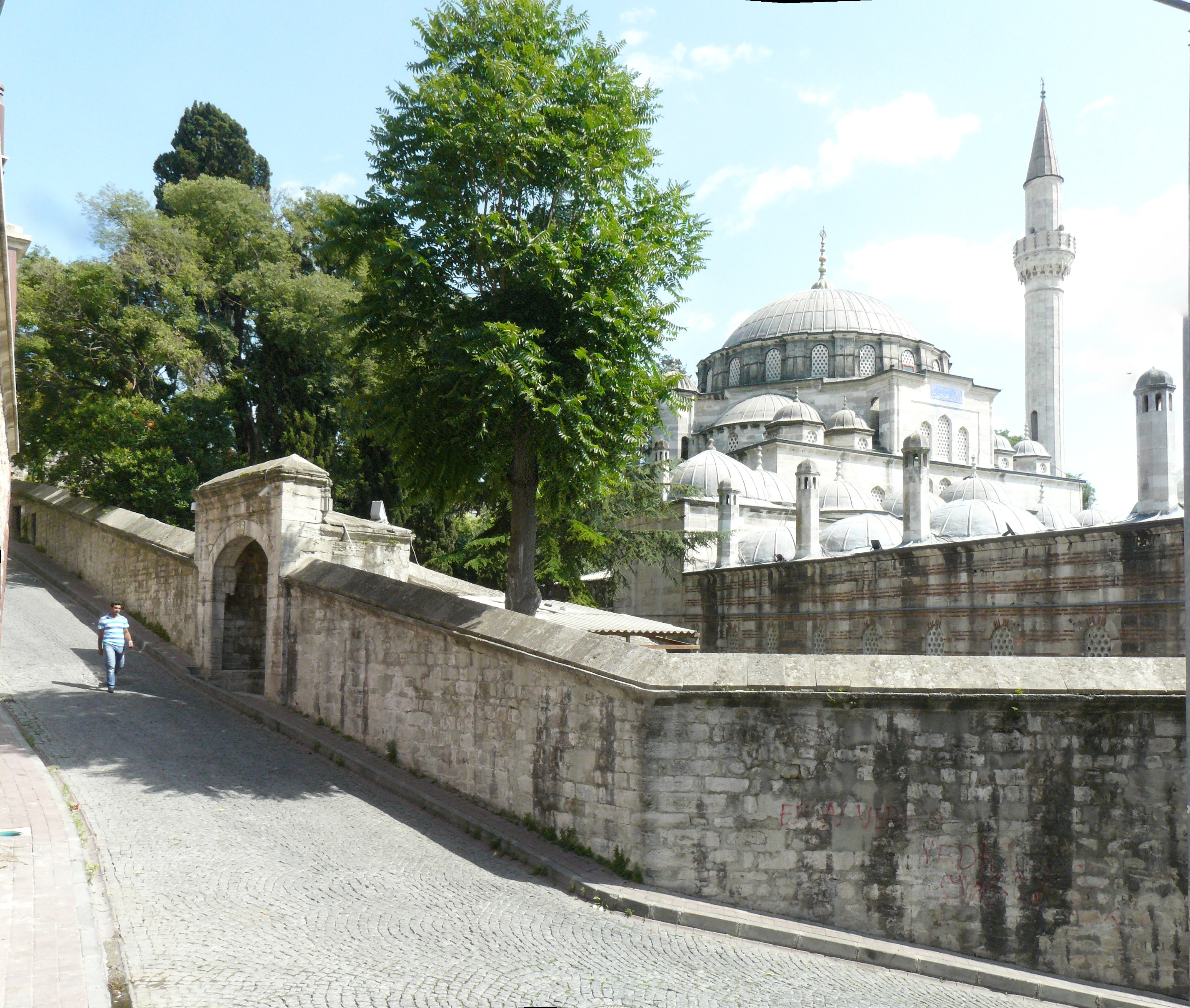 Sokollu Mehmet Pasha Camii, built by architect Sinan, Istanbul.